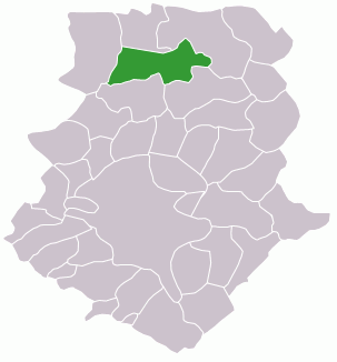 The map of Ilfov county with Snagov commune highlighted